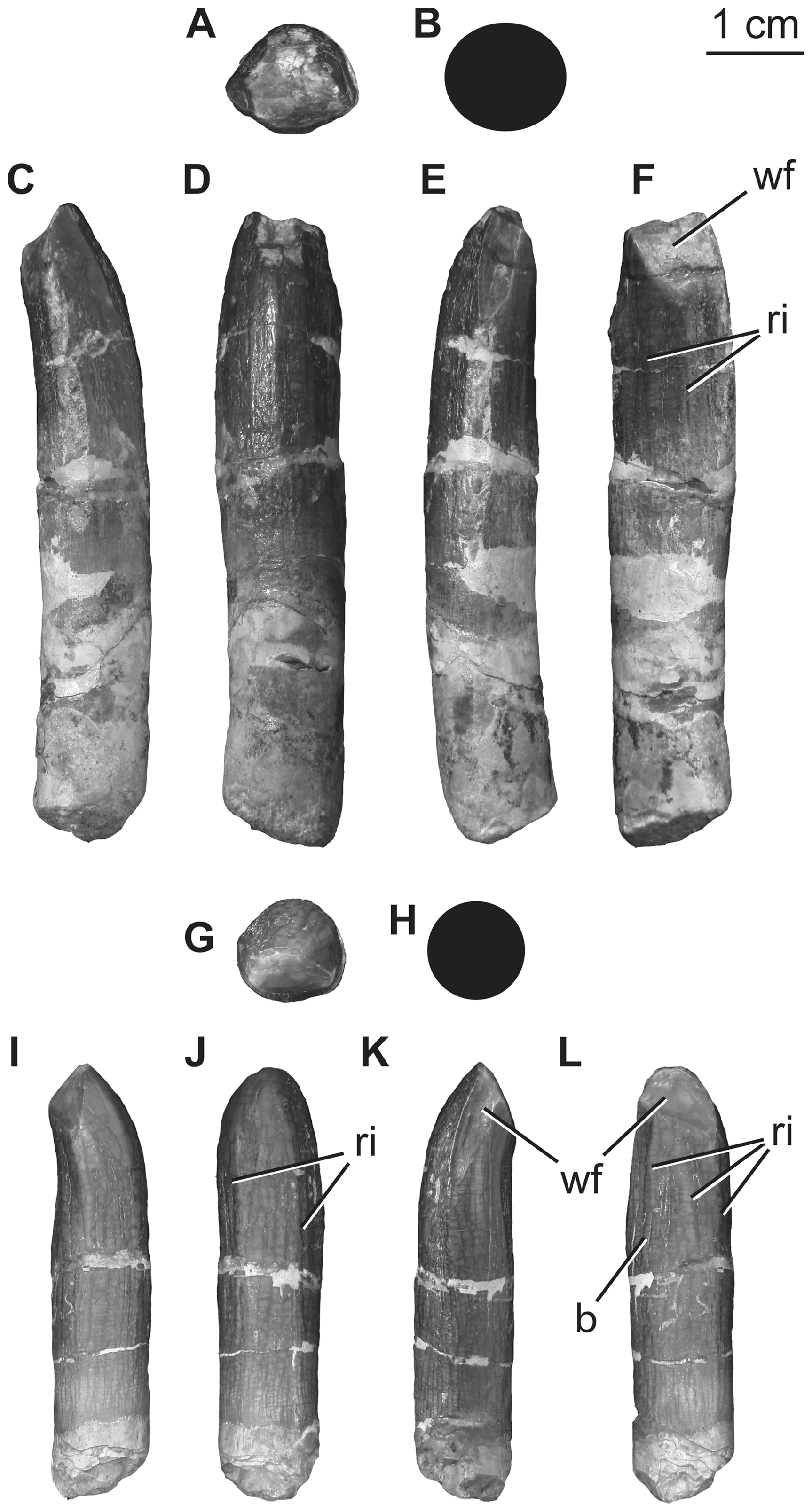 Holotypic teeth of H. allocotus (HBV-20001) from the Upper Cretaceous of Shanxi, China. Larger tooth in (A) occlusal, (B) basal (silhouette schematic); (C) mesial or distal, (D) labial, (E) mesial or distal, and (F) lingual views. Smaller tooth in (G) occlusal, (H) basal [silhouette schematic], (I), mesial or distal, (J) labial, (K) mesial or distal and (L) lingual views. Abbreviations: b, bump; ri, ridge; wf, wear facet.